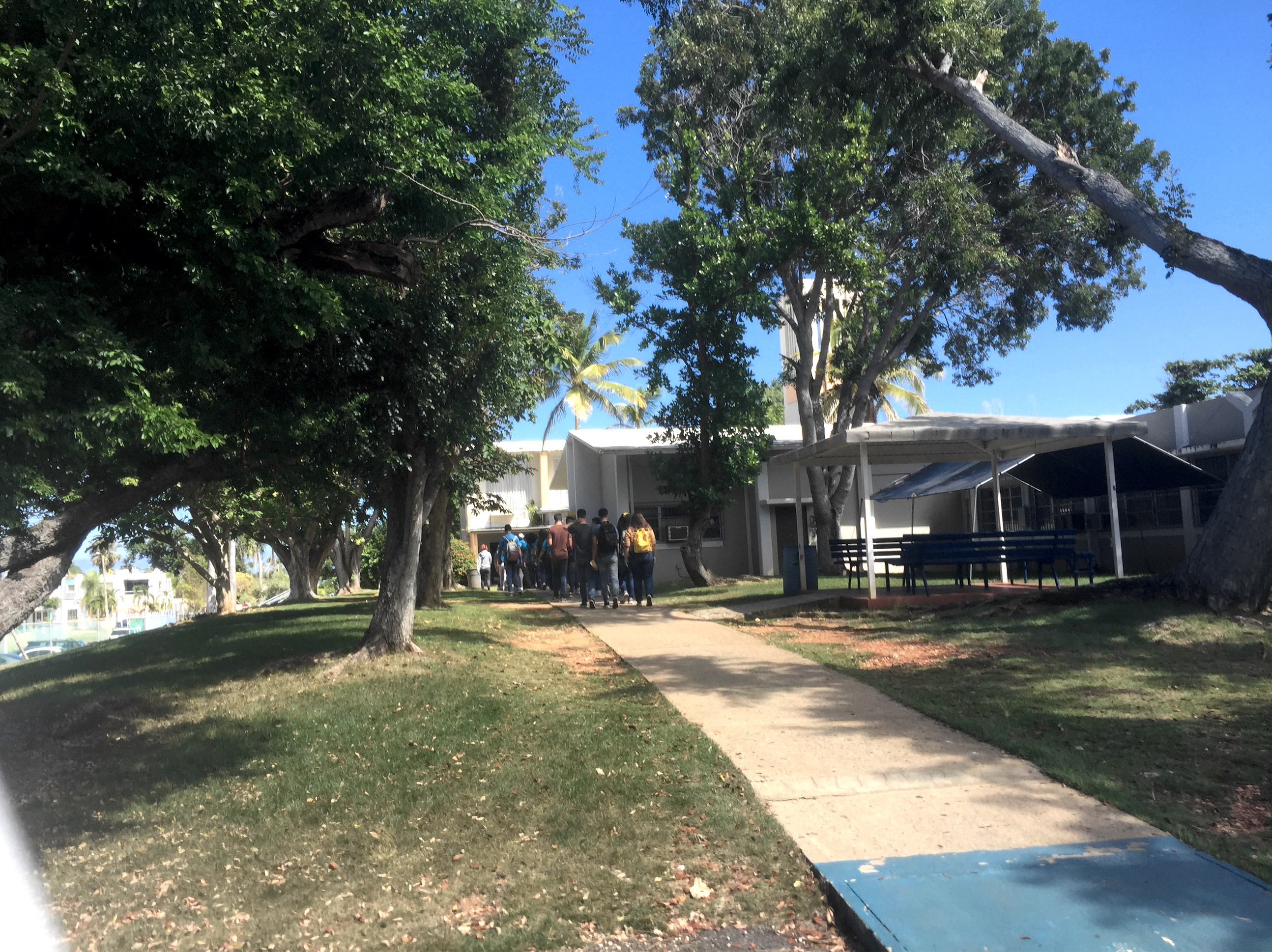 Humanities Department at the University of Puerto Rico in Aguadilla